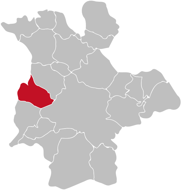 Location of the district Seelbach within Siegen, Germany. Red/Grey colors match the color scheme of Germany maps and information boxes in German Wikipedia. District is highlighted in red.